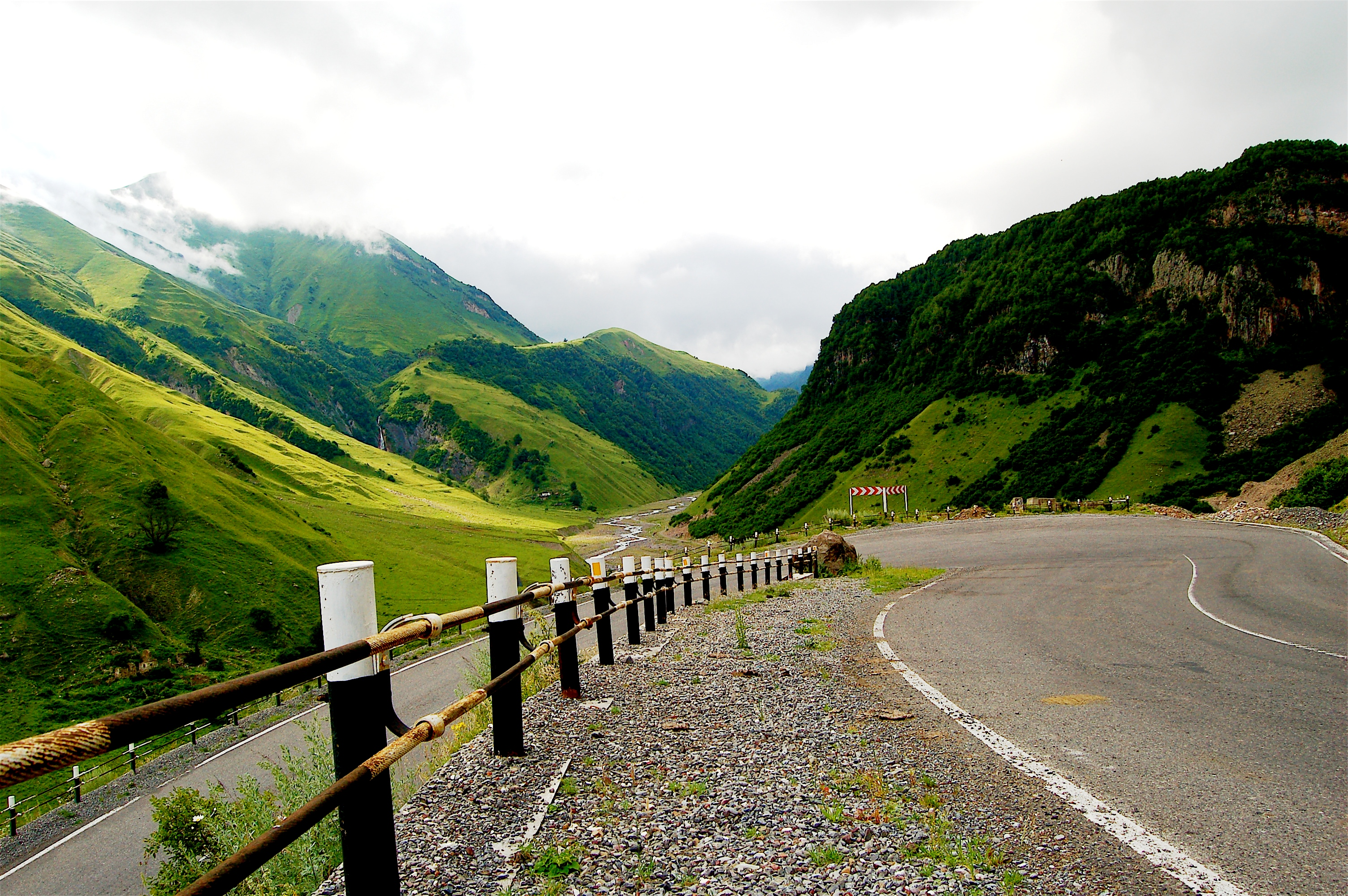 Curves, pretty much like Western Norway. On our merry way to Kazbegi in the central Caucasus.